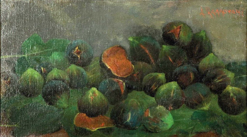 Still life with figs